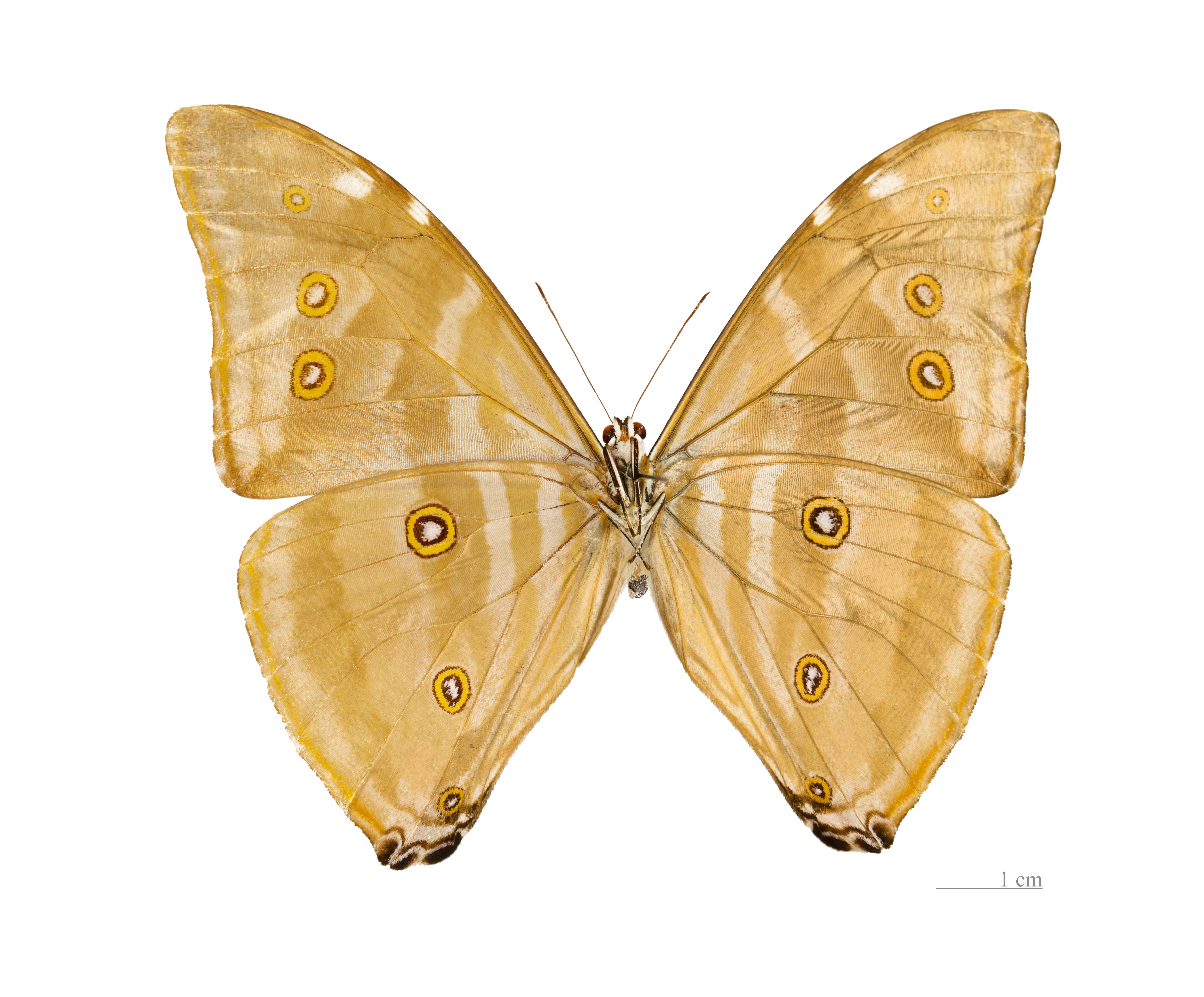 Morpho marcus - △ Ventral side